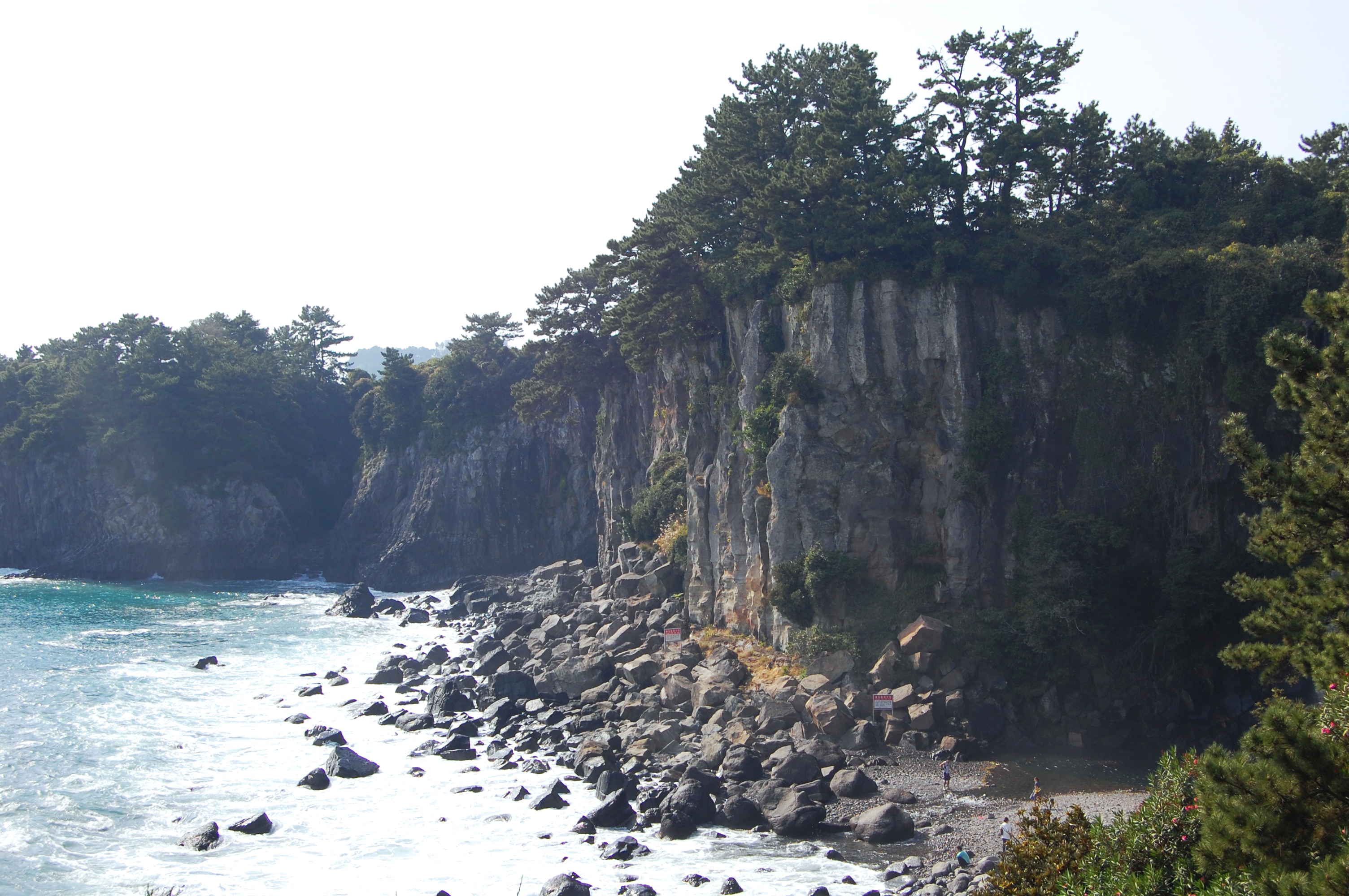 Near the Jeongbang Waterfall 정방폭포. The waterfall is 23 meters high and is very close to the ocean.